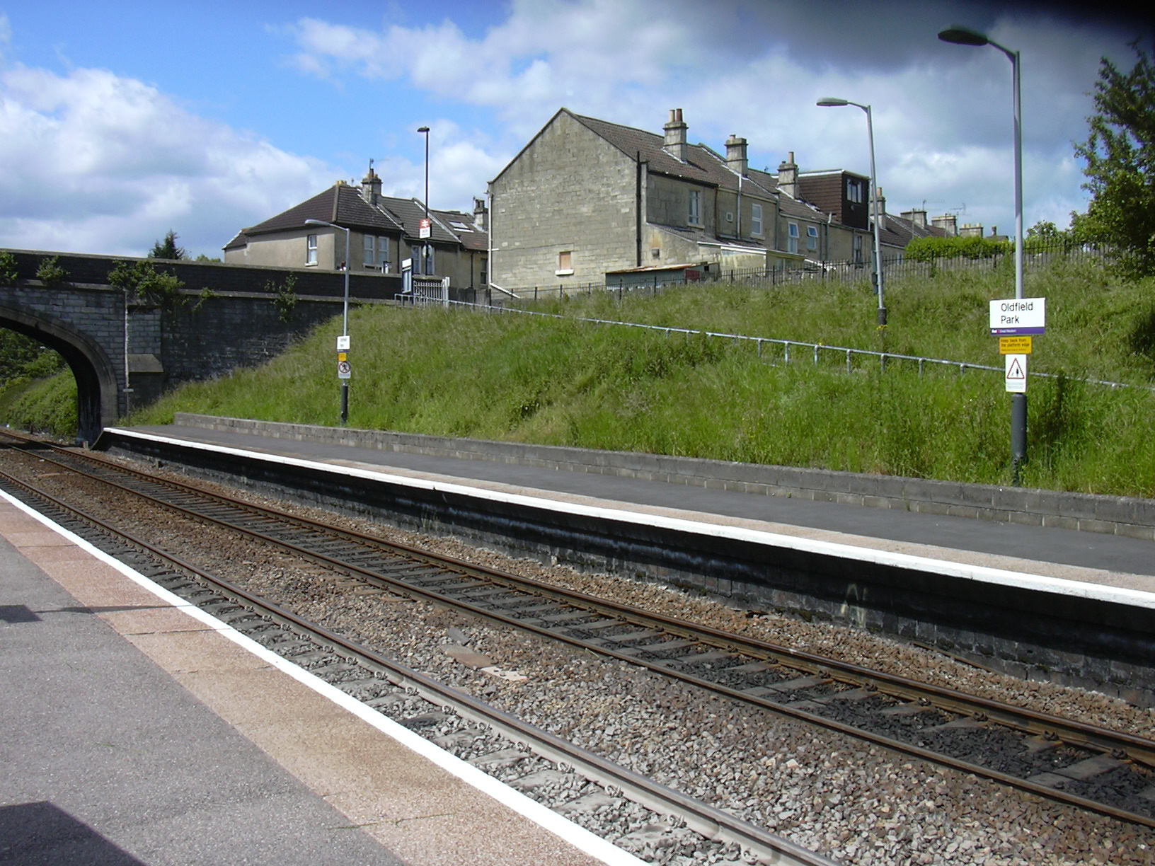 A view of the north 'up' plaform and the walkway to Brook Road